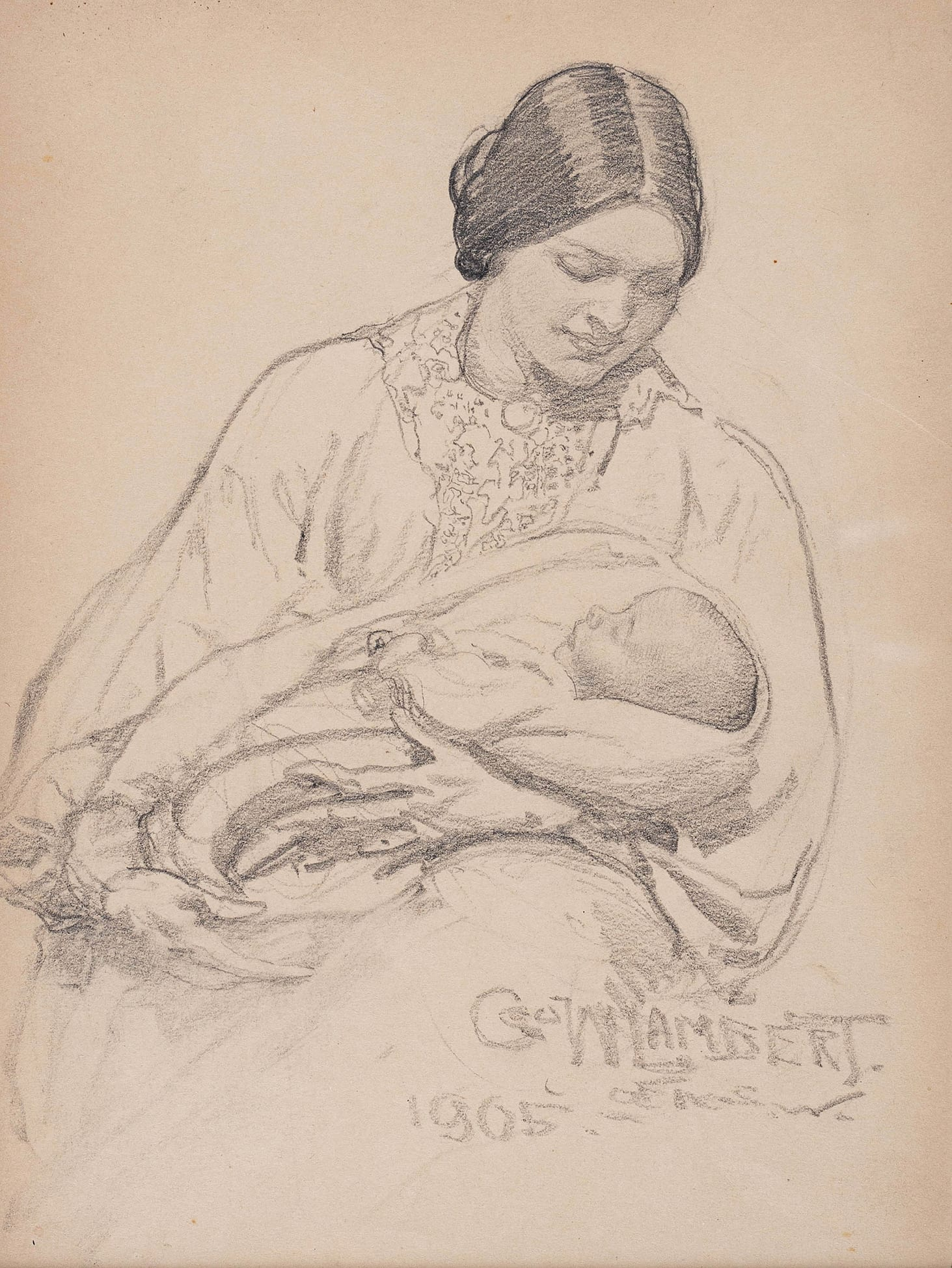 Offered for sale by Abbott and Holder in December 2019, when it was described as "LAMBERT George Washington A.R.A. (1873-1930) The artist’s wife, Amy, and their son Constant. Pencil. Signed and dated, 1905. 8.5x5.25 inches."